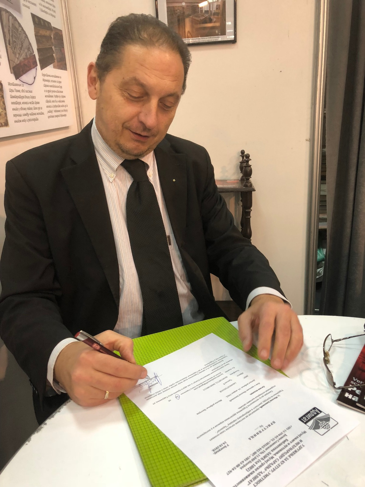 Miloš Janković in the Society for Culture, Art and International Cooperation Adligat in Belgrade, Serbia. Српски (ћирилица): Милош Јанковић потписује уговор о легату у Удружењу за културу, уметност и међународну сарадњу Адлигат у Београду.